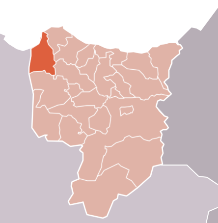 Trougout